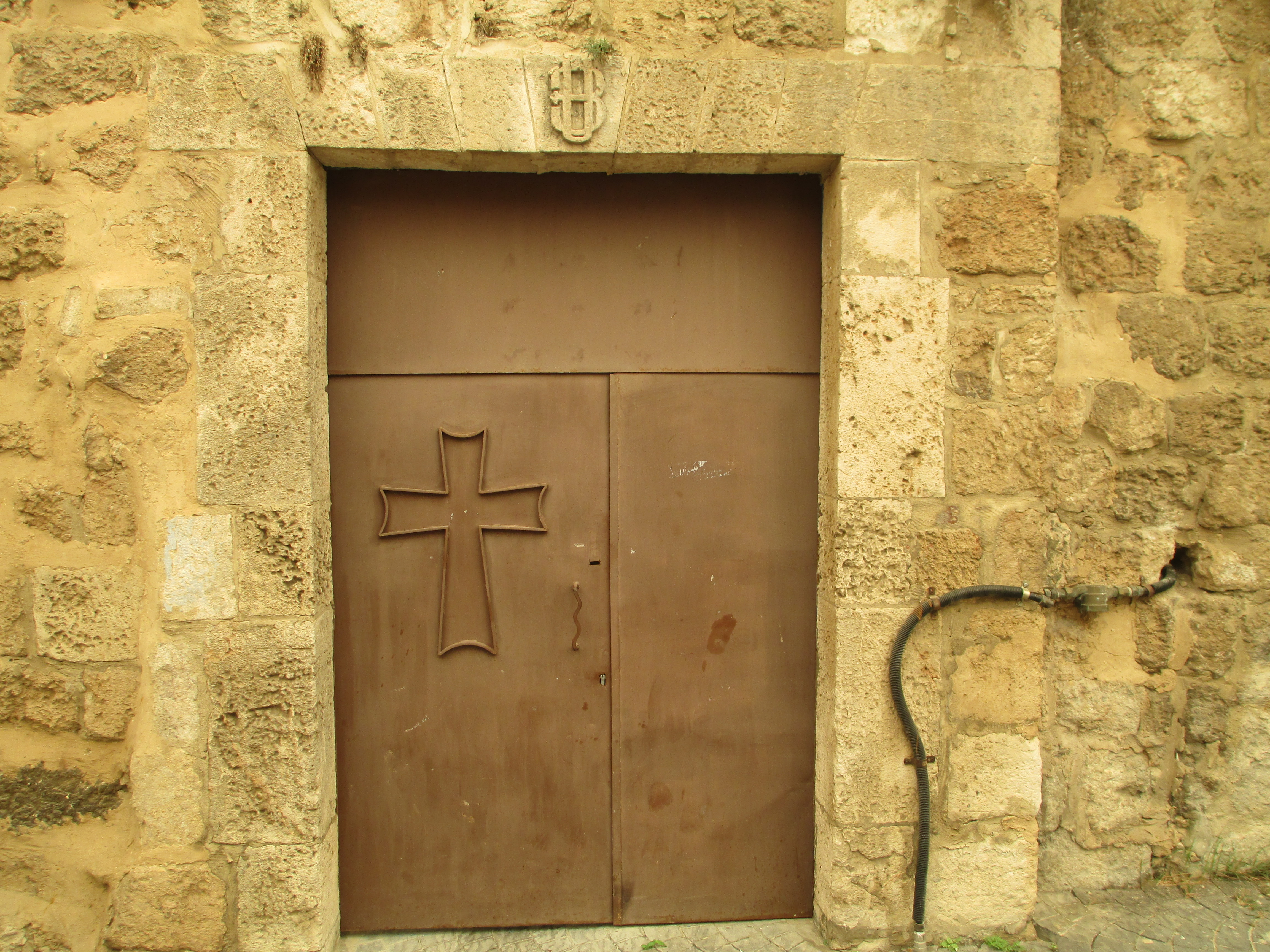 Entrance to the armenian church in Ramla